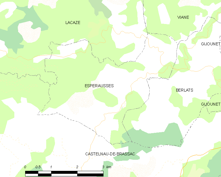 Map of French municipality Espérausses